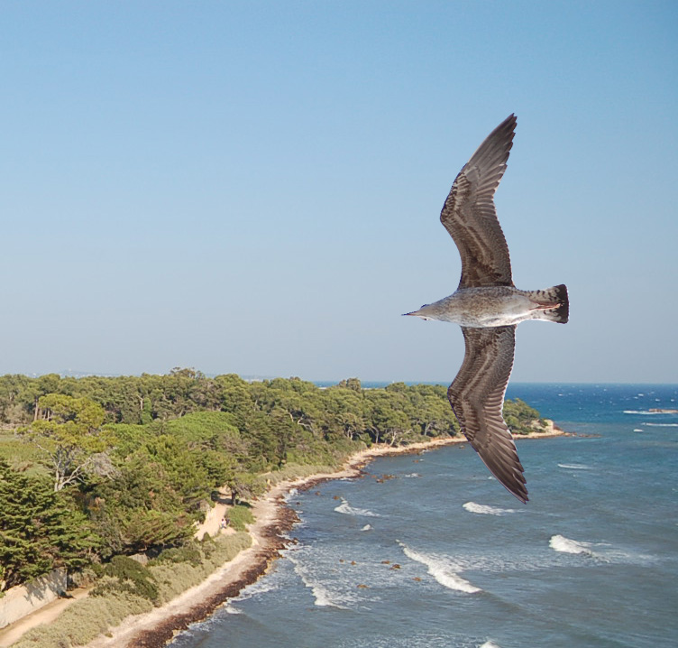 example file to illustrate image layers - Right part